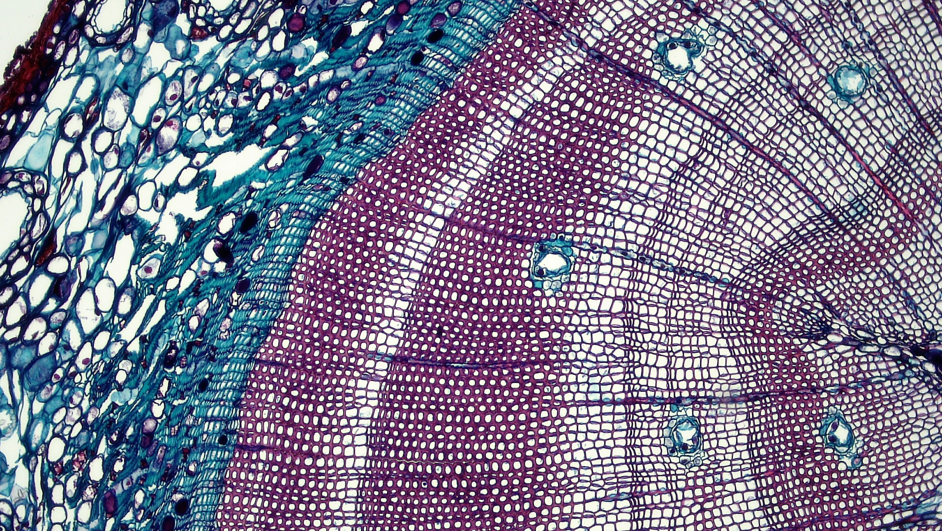 cross section: Pinus stem magnification: 100x During the first year of growth the cutinized epidermis is replaced by protective growth of cork rich periderm. The outer periderm consists of layers of cork cells, the phellem, which produces waterproofing suberin. Cork cells are dead at maturity. Deep to the phellem is a living layer of cork cambium or phellogen and beneath that, layers of cork parenchyma or phelloderm. Many cells in the periderm contain dark staining tannins. The cortex is divided into a thin outer hypodermis of lignified sclerenchyma cells and thicker inner cortex of thin walled parenchyma cells containing chloroplasts. Large resin ducts are surrounded by secretory parenchyma that produces resins and turpentines. Some cells enlarge into dark staining tyloses. Both endoderm and pericycle are inconspicuous. The vascular cylinder or stele in young stems consists of a ring of vascular bundles interspaced with medullary rays of parenchyma cells. Seasonal activity of the cambium replaces the isolated vascular bundles with well-defined annual rings of secondary phloem and xylem. Xylem is endarch with protoxylem found towards center of the stem and younger metaxylem towards the periphery of the stem. Protoxylem consists of annular and spiral tracheids with only tracheids found in metaxylem. True xylem vessels are lacking. Because of the greater production of xylem, the vascular cylinder is dominated by radially arranged rays of secondary xylem interspaced with medullary rays of parenchyma cells. Conspicuous resin ducts are present throughout the xylem. Phloem is endarch but annual growth the of stem makes it difficult to distinguish between older protophloem to the periphery and younger metapholem towards center of the stem. Phloem lacks companion cells, consisting entirely of sieve tubes and phloem parenchyma. Medullary rays in the secondary phloem include protein rich albuminous cells.